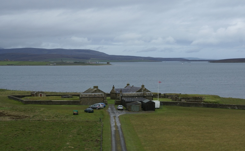 Hackness Martello Tower and Battery, South Walls, Orkney, Scotland. Hackness Battery. View from Martello Tower.